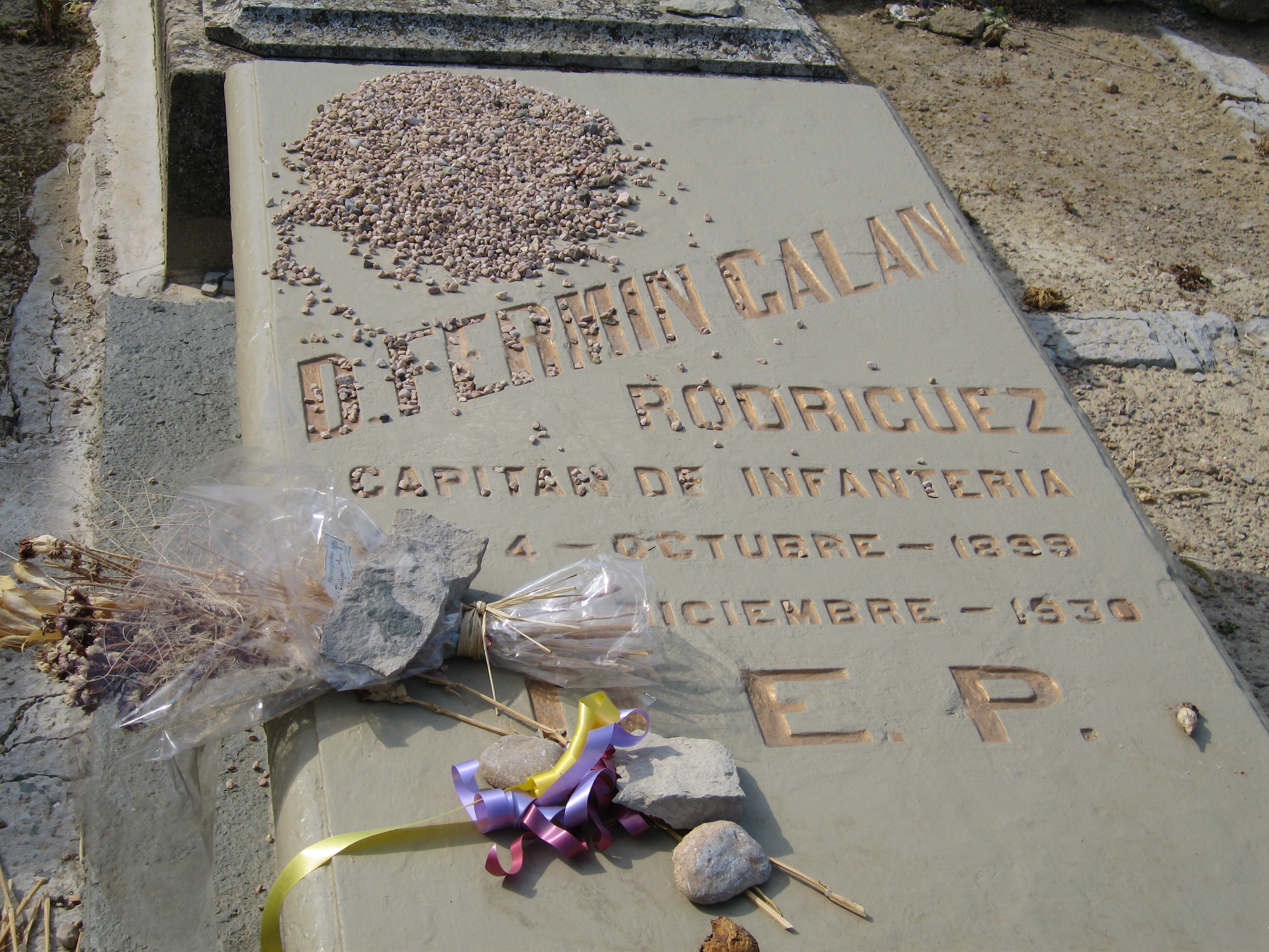 Grave of Captain Fermin Galan at Huesca's cemetery